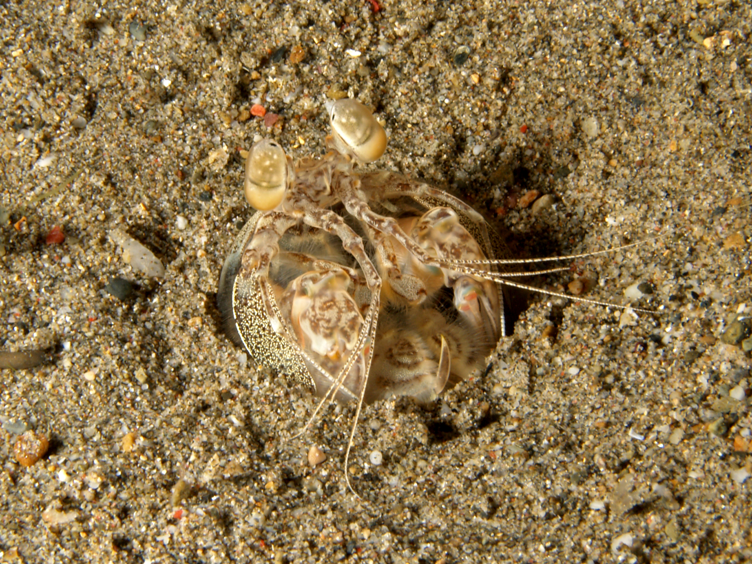 Spearing mantis shrimp